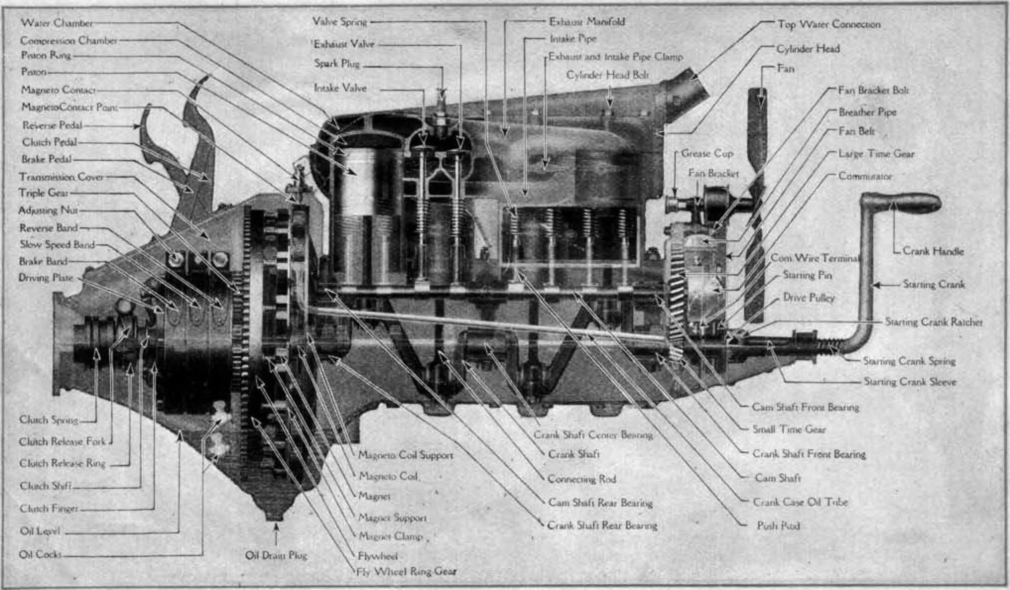 1919 Ford Motor Car and Truck operating manual